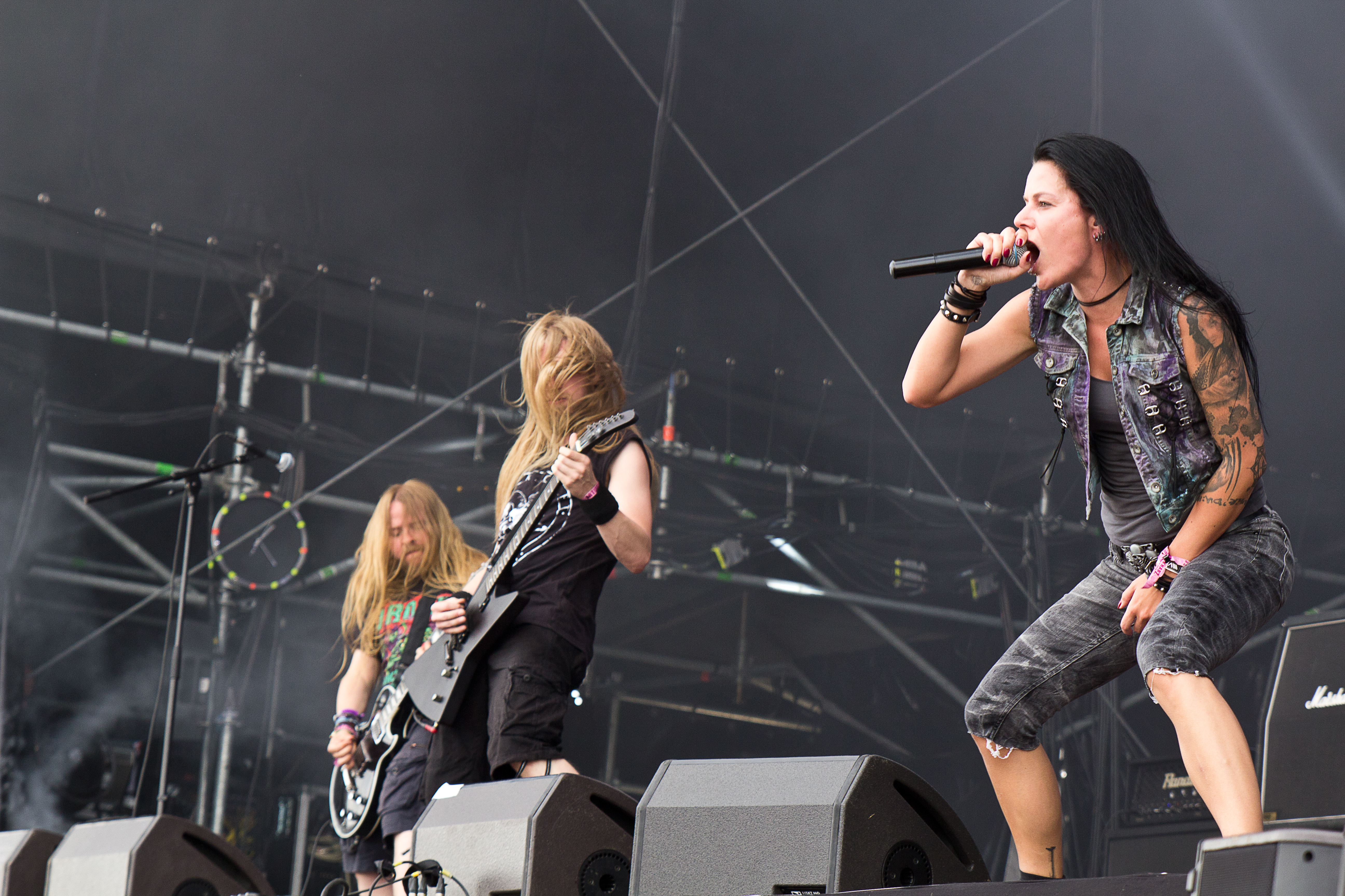 The German thrash metal band Cripper at the Rockharz Open Air 2015 in Ballenstedt/Germany.